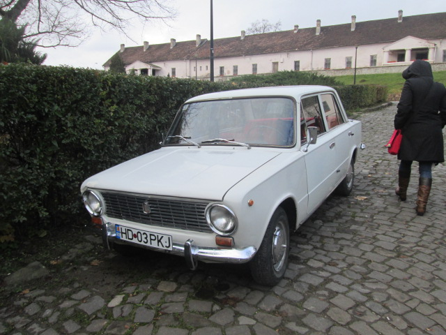 Lada 1200, VAZ 2101 car in the Huniads' Castle carpark, Hunedoara, Romania (feel free to censor out the licence plate)